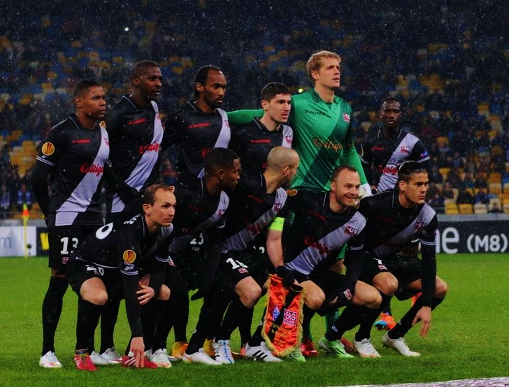 En Avant de Guingamp 2015